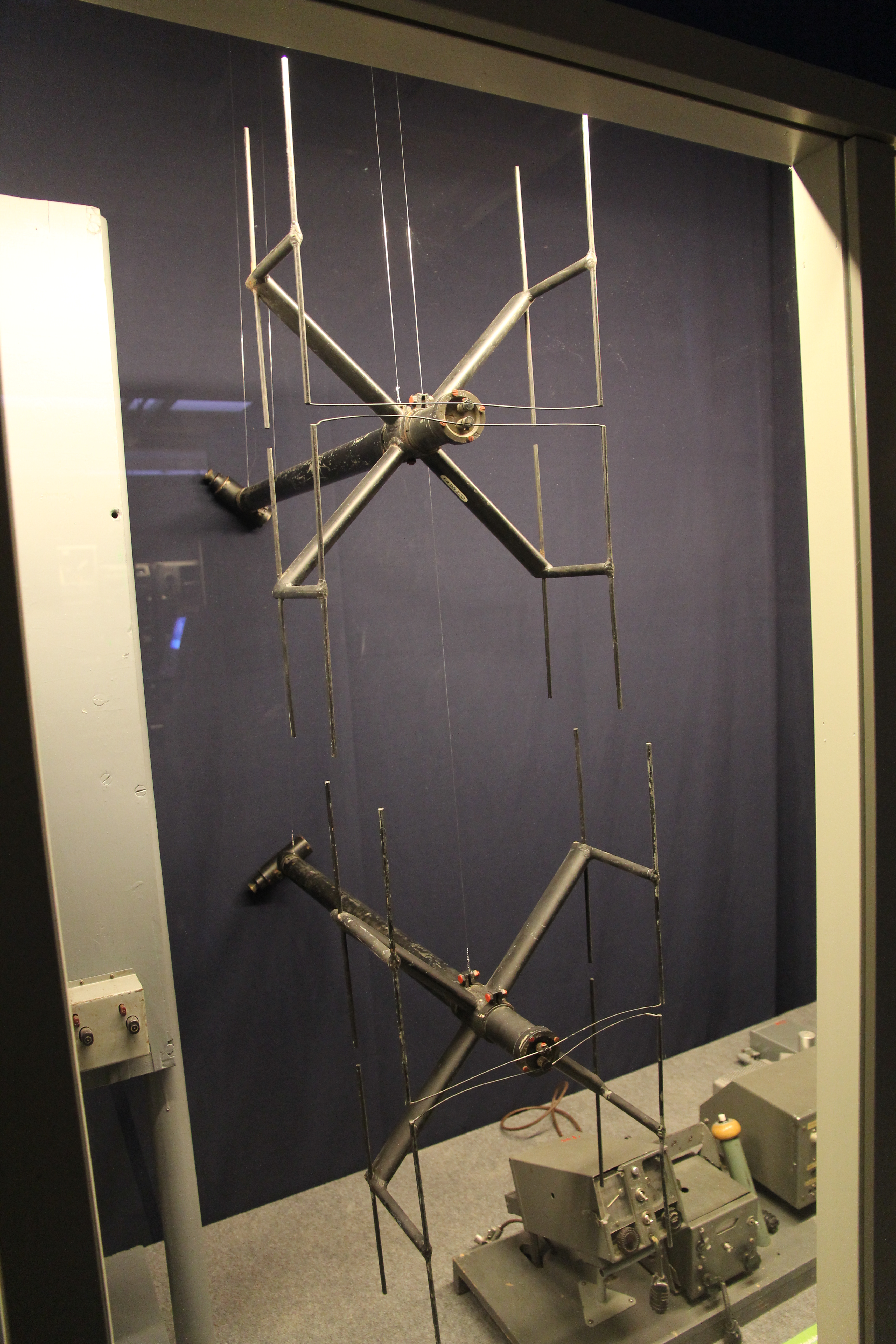 German Lichtenstein FuG 202 airborne radar antennas (ITU-classificatio: Radiolocation land station in the radiolocation service), purchased by Finland in 1944 but never used due to the armistice. Photographed in the Finnish Air Force signals museum.